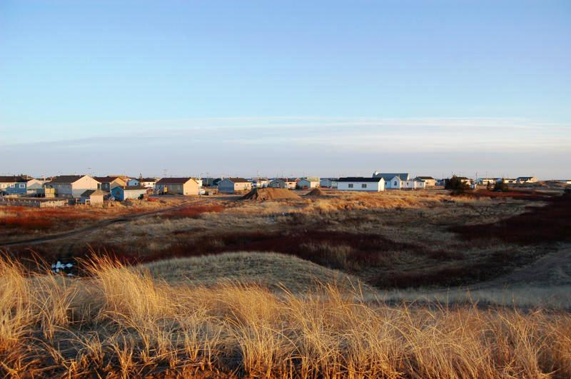 Picture of the Nutashkuan Innu reserve in Côte-Nord region, in the province of Quebec, Canada.